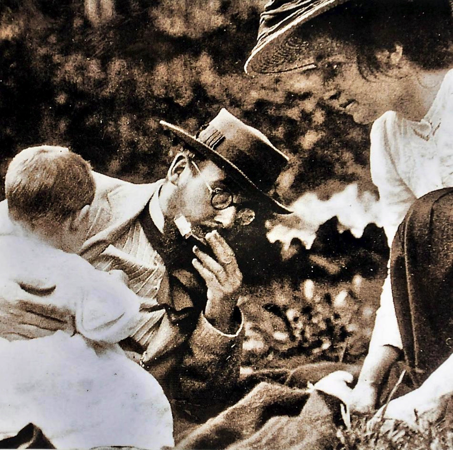 Heinrich Nauen (1880–1940), playing a harmonica (blues harp), with his wife Marie von Malachowski-Nauen (1880–1943) and her daughter Nora (* 1908)